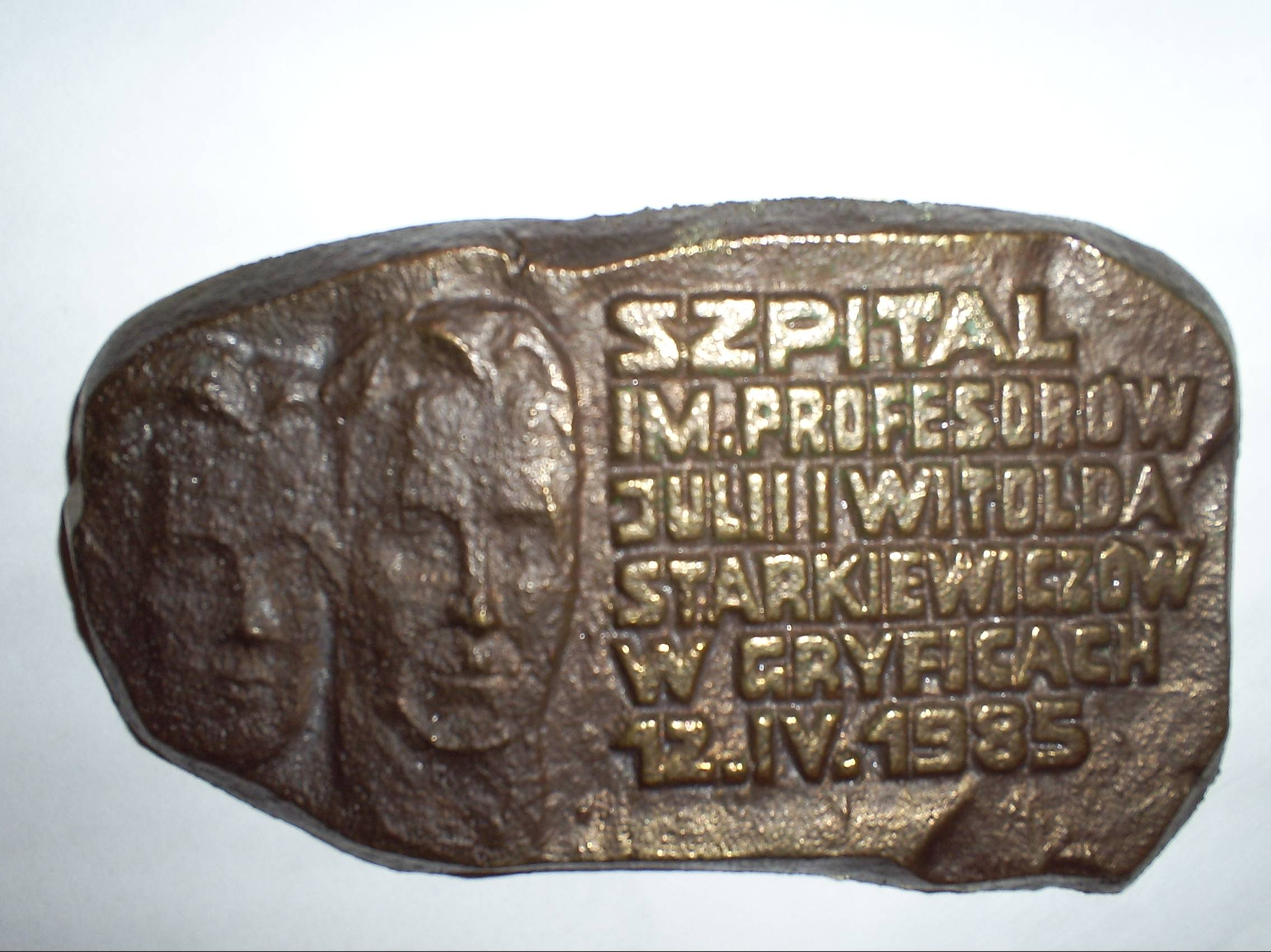 Thumbnail plaque: Hospital name Professors Julia and Witold Starkiewicz (Gryfice, Poland, 12.04.1985)